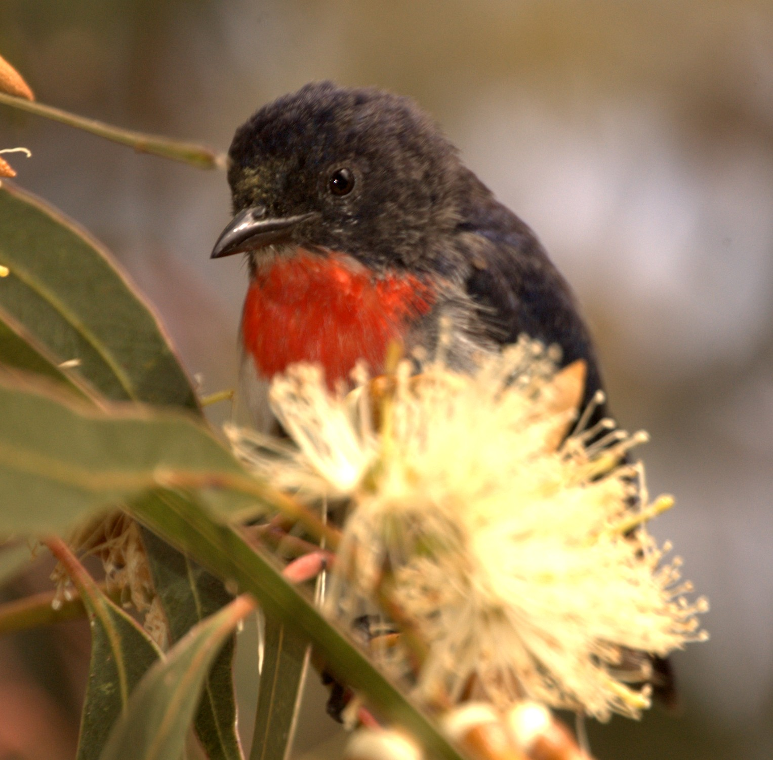 Mistletoebird (Dicaeum hirundinaceum) Wynnum, SE Queensland, Australia